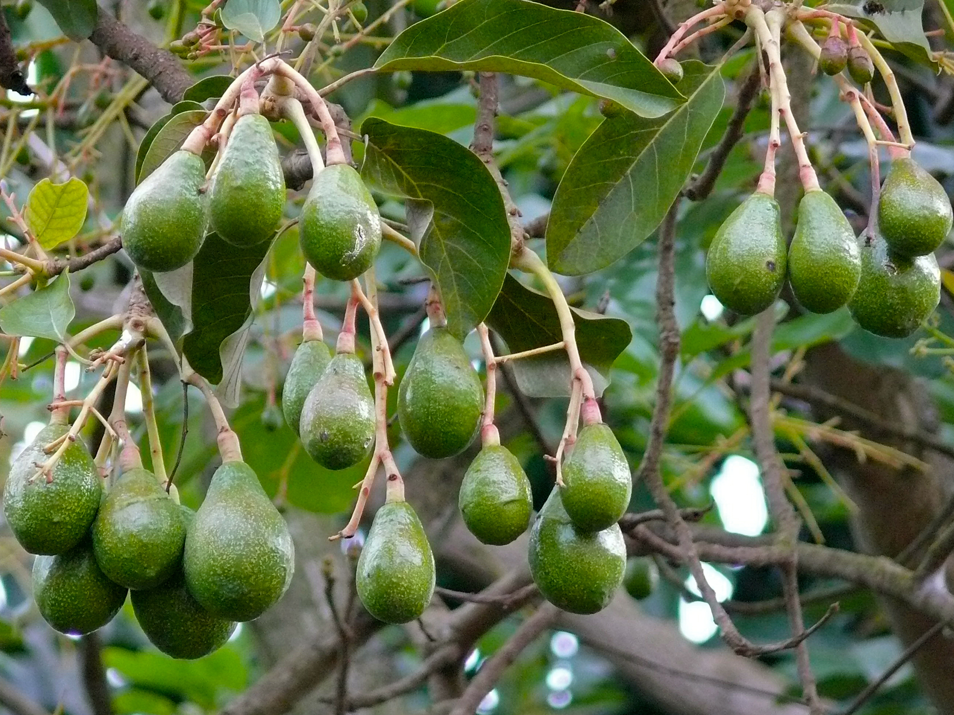 Red Chilli Hideaway, Kampala, UGANDA